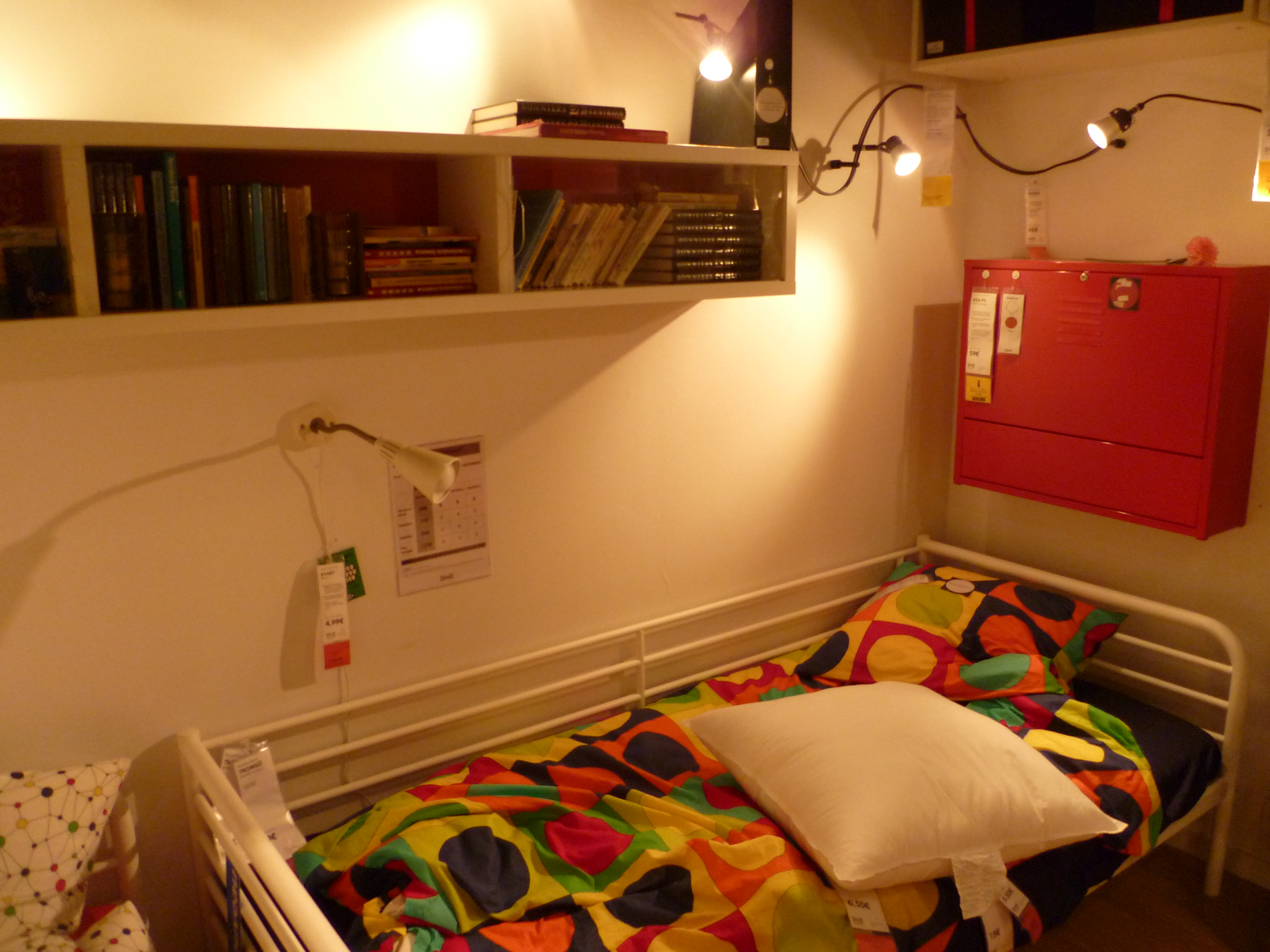 Children's room at an IKEA store.